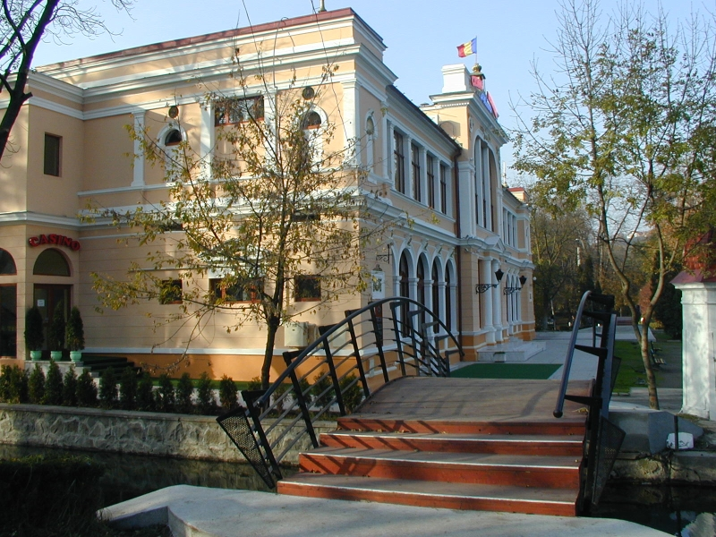 Chios Casino from Cluj-Napoca, Romania - lateral view and the lake 04